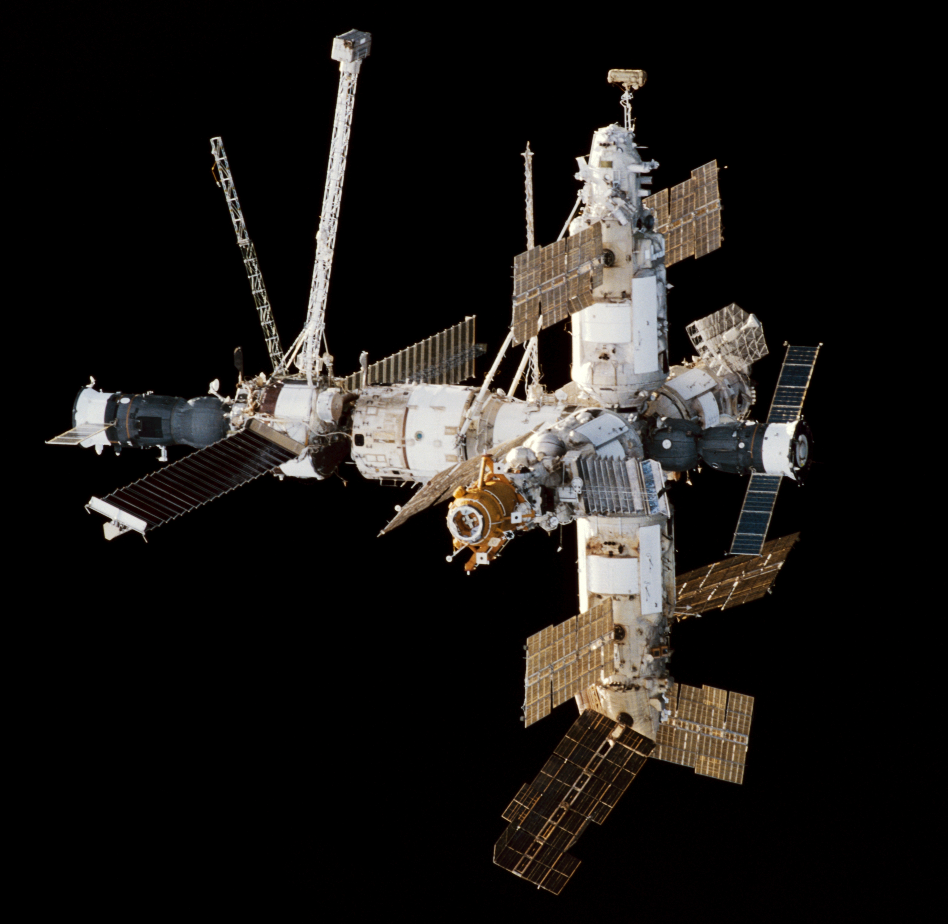 Approach view of the Mir Space Station viewed from Space Shuttle Endeavour during the STS-89 rendezvous. A Progress cargo ship is attached on the left, a Soyuz manned spacecraft attached on the right. Image ID: STS089-340-035